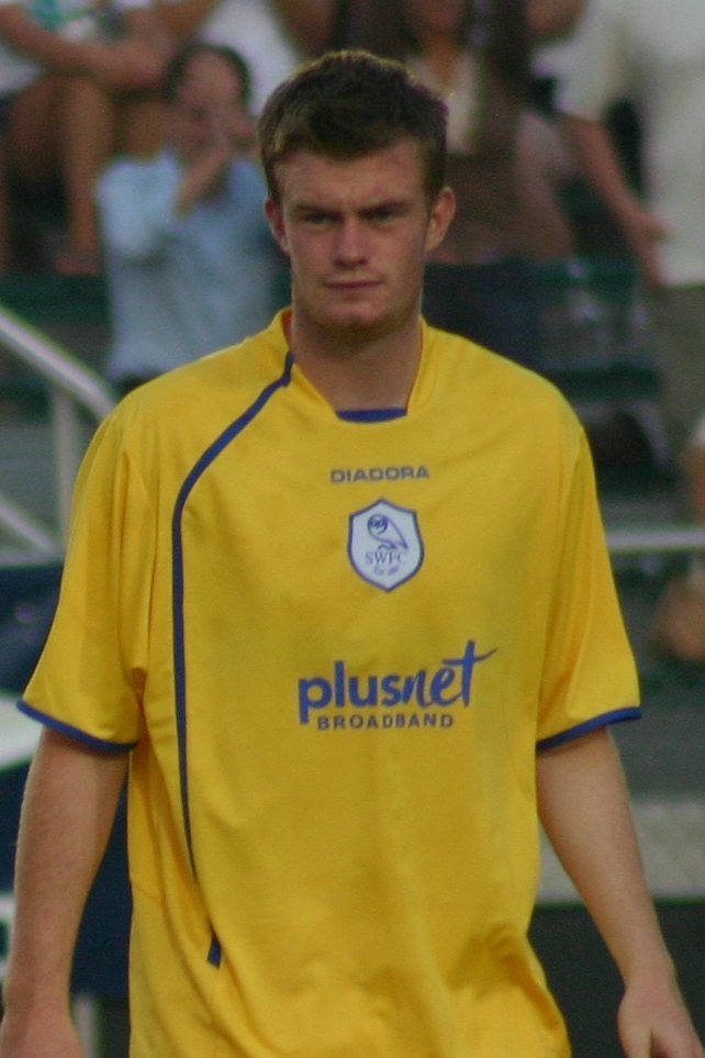 Chris Brunt in SWFC's pre-season tour of the USA. USL All-Stars v Sheffield Wednesday 19th July 2006. Author: W. Jarrett